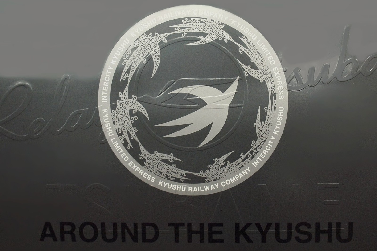 "Around the Kyushu" logo on a JR Kyushu 787 series EMU